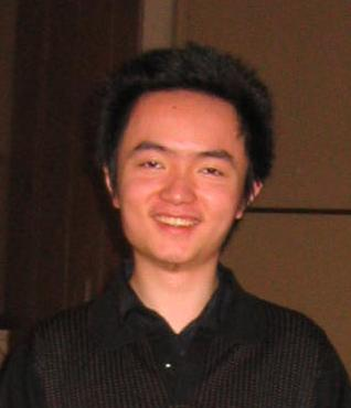 Shen Wenyu, chinese pianist photo:Ziga 13:35, 29 September 2006 (UTC)